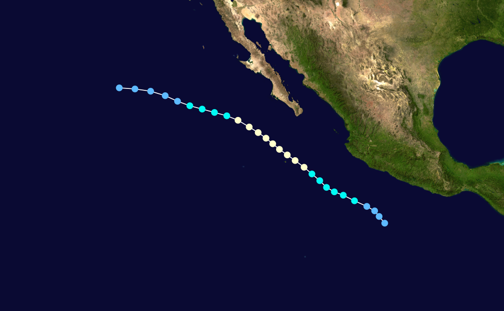 Hurricane Fausto (1990) track. Uses the color scheme from the Saffir-Simpson Hurricane Scale.